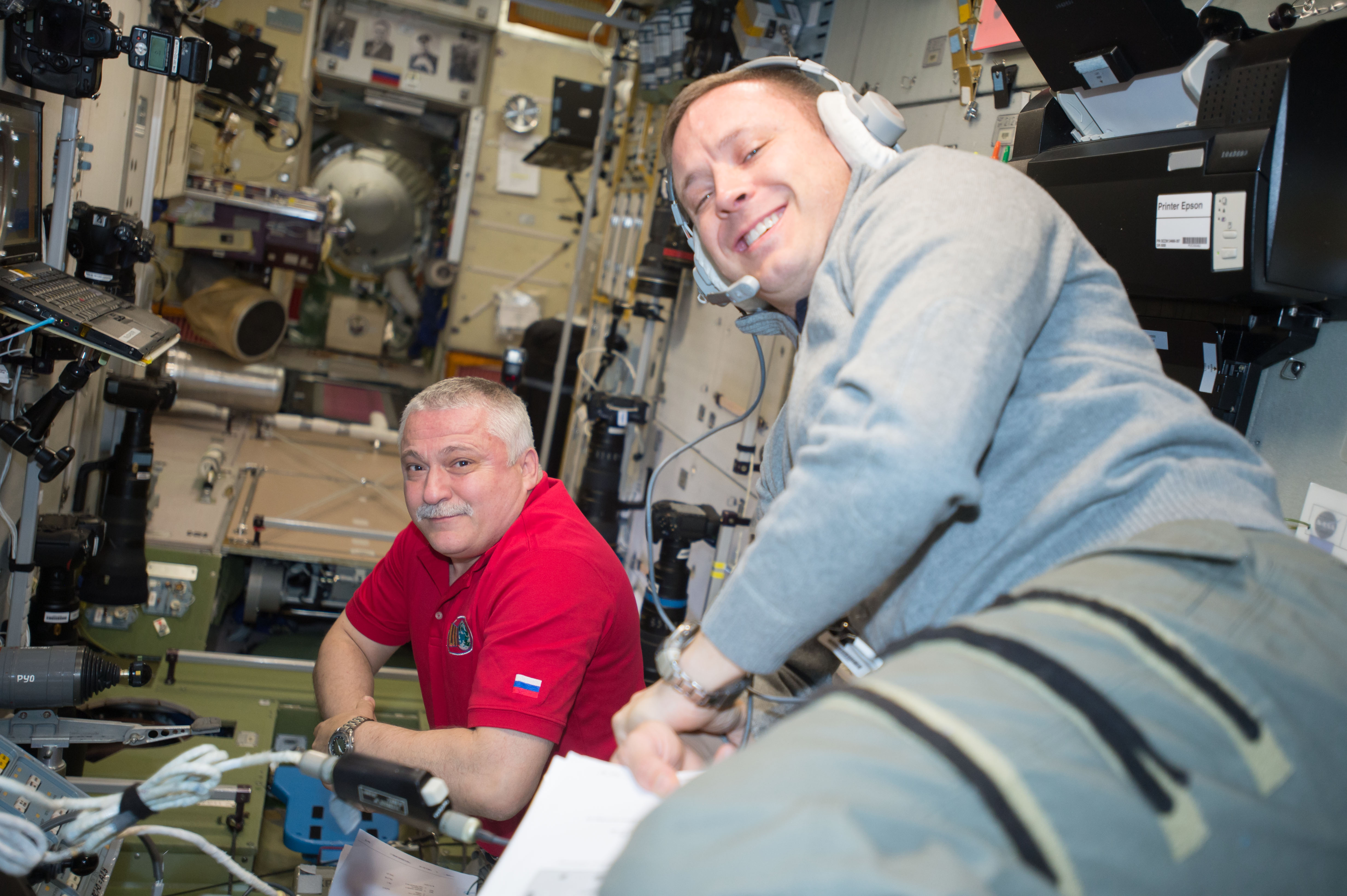 Expedition 52 crew members Fyodor Yurchikhin (left) and Jack Fischer are seen working inside the Zvezda service module.